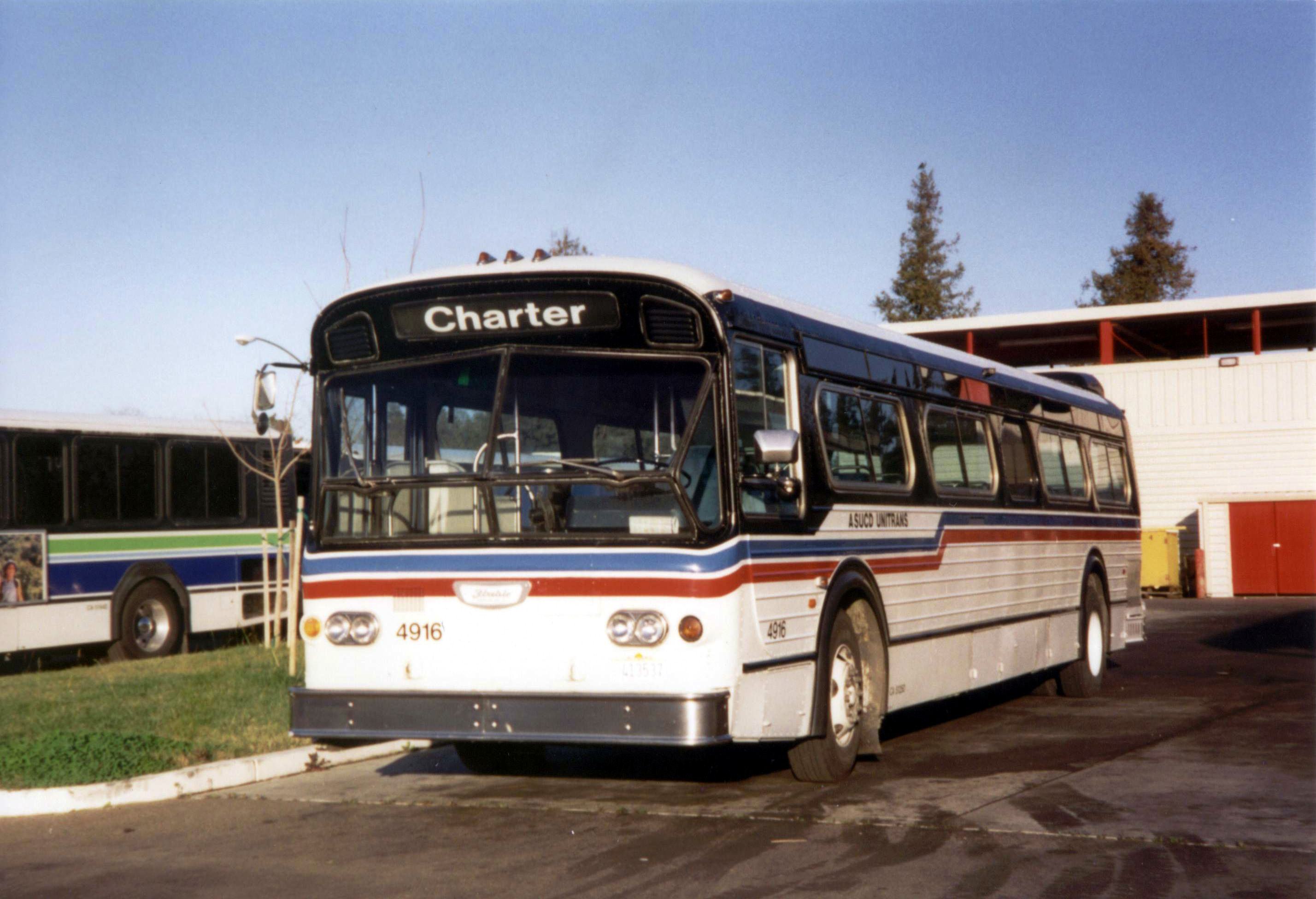 Unitrans 4916 (a 1973 Flxible 111CC-D6-1 New Look) on the UC Davis campus at the Unitrans garage, in Davis, CA sometime in the early-mid 1990's. Photo taken by Andrew M. Smith.